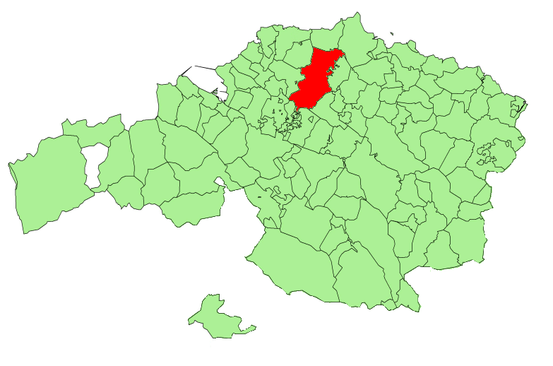 Mungia municipality in the province of Biscay